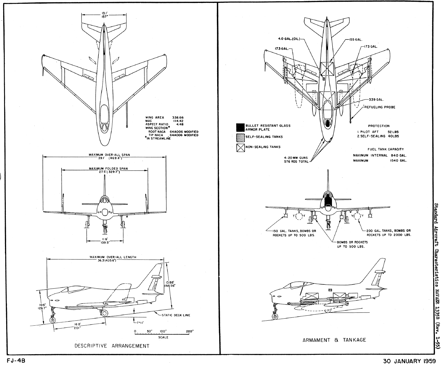 Line drawings for the North American FJ-4/-4B Fury fighter.